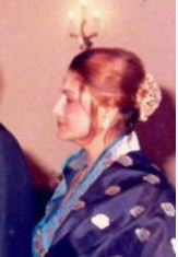 Rowshan Ershad SAARC in Dhaka 1986